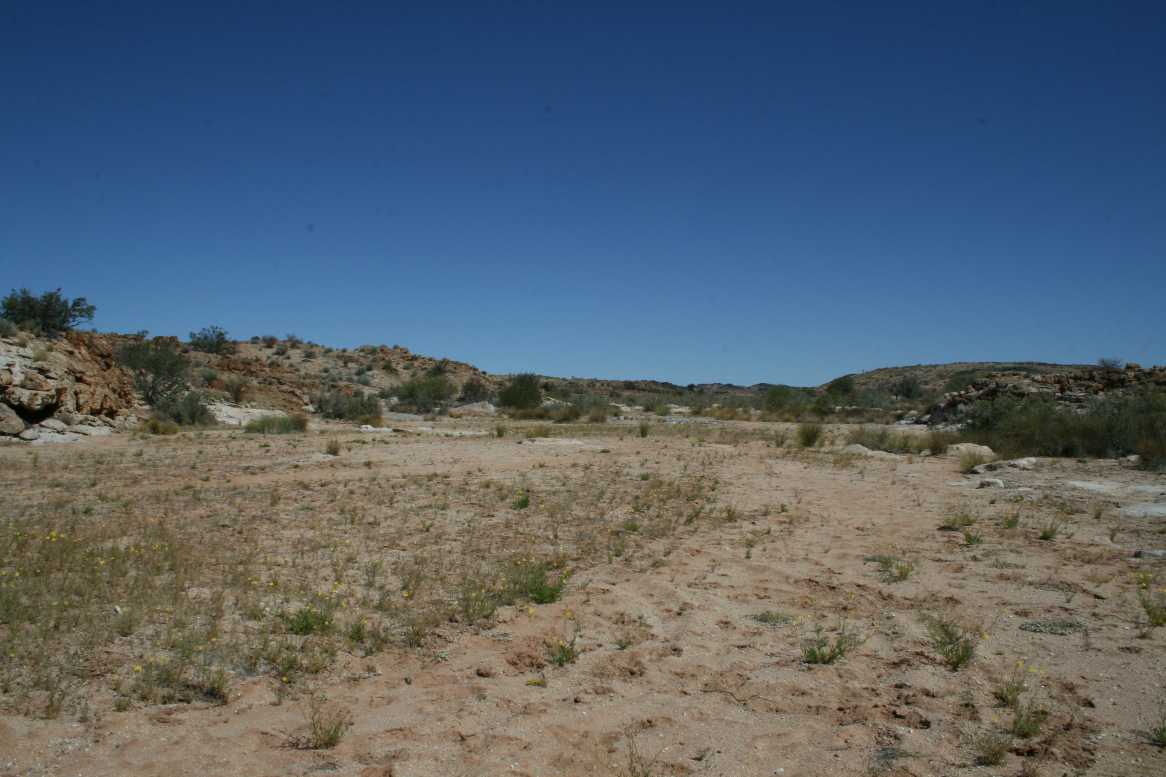 A wadi in Augrabies Falls National Park